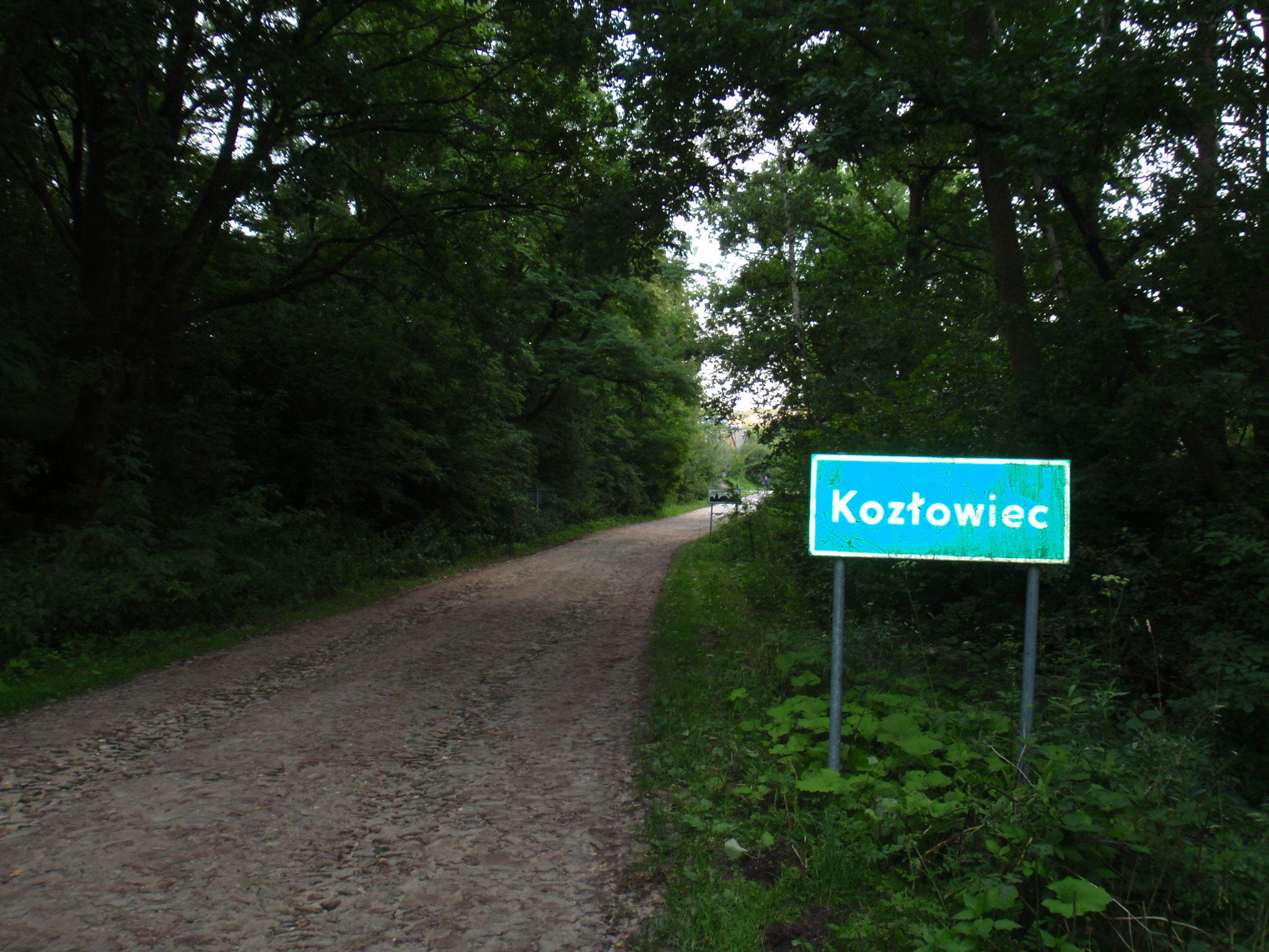 Kozłowiec, Masovian voivodeship